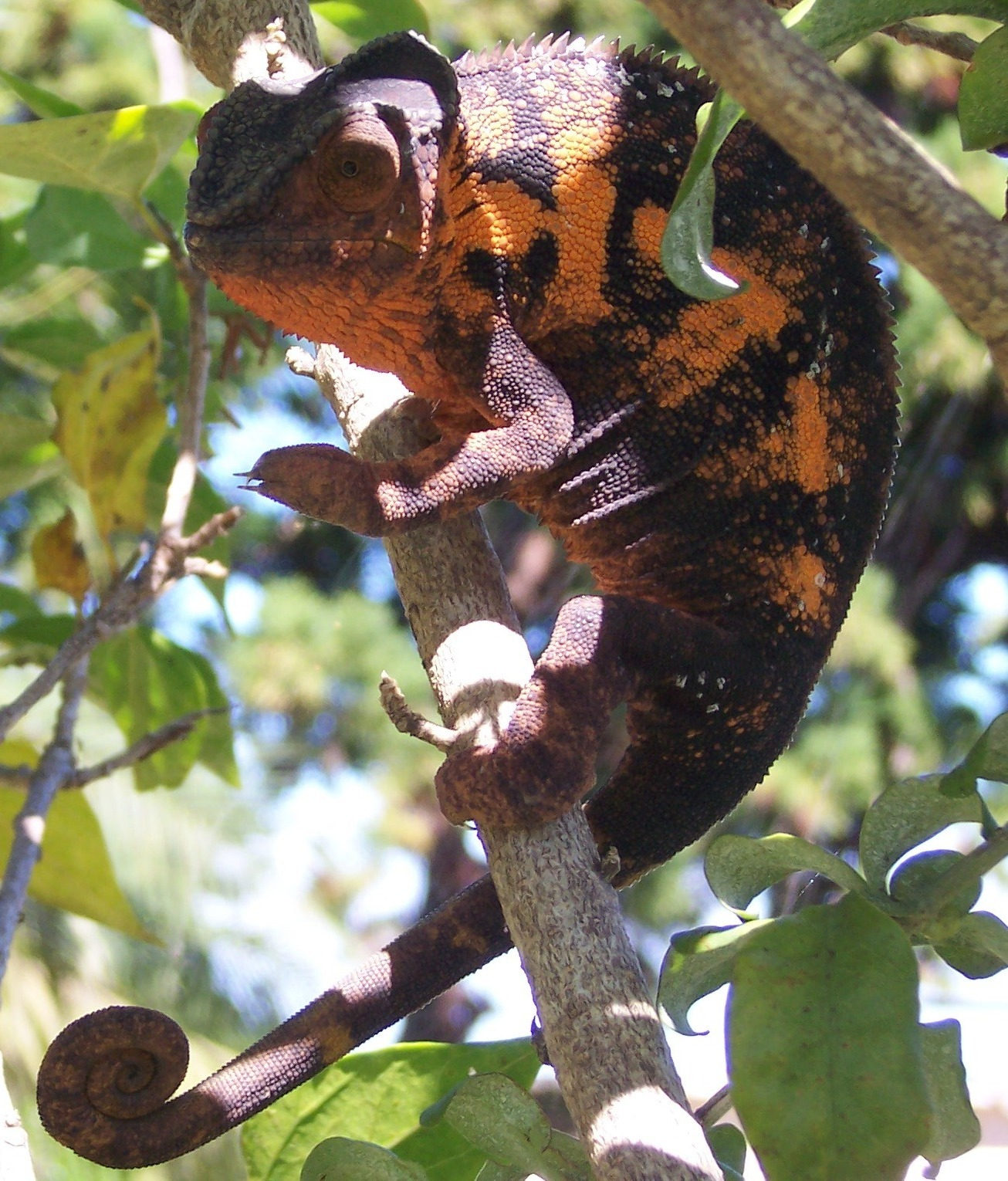 Female panther chameleon (Furcifer pardalis), Le Tampon, Reunion Island.